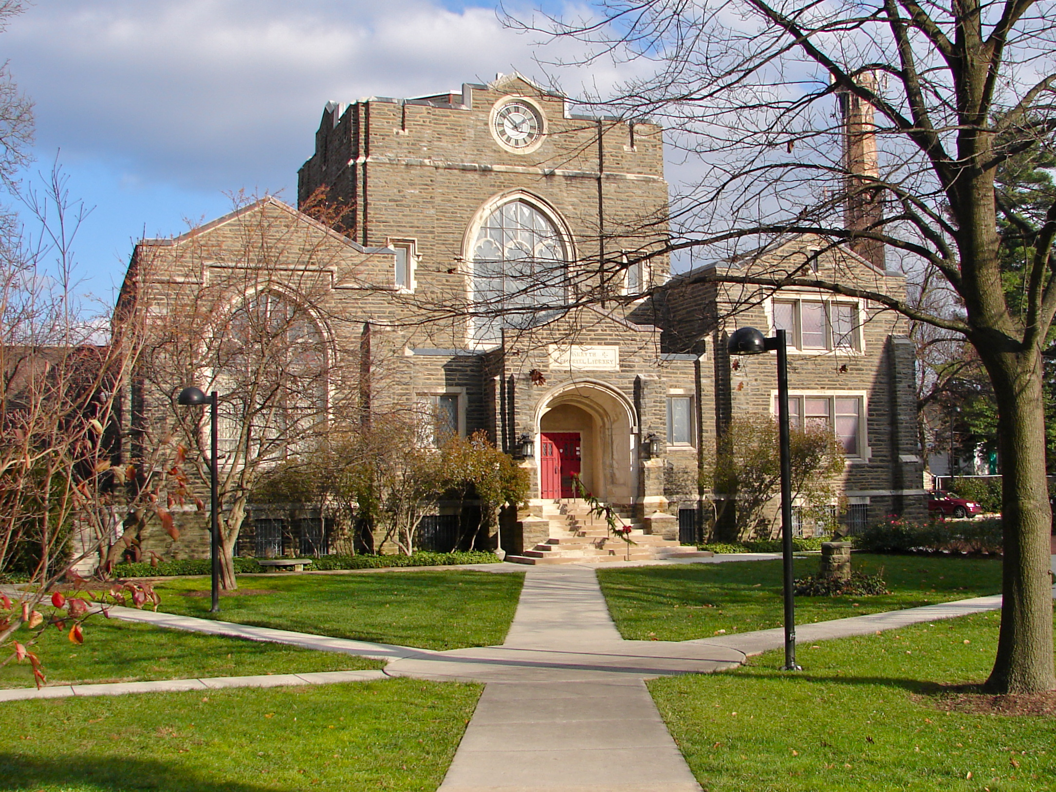 Krauth Memorial Library at the Lutheran Theological Seminary at Philadelphia on Germantown Avenue, Philadelphia, Pennsylvania. Located in the Mount Airy neighborhood adjacent to Germantown, it is within the Colonial Germantown Historic District (NHL). It was built in 1906-1908 and was dedicated in 1908 in memory of Charles Porterfield Krauth.